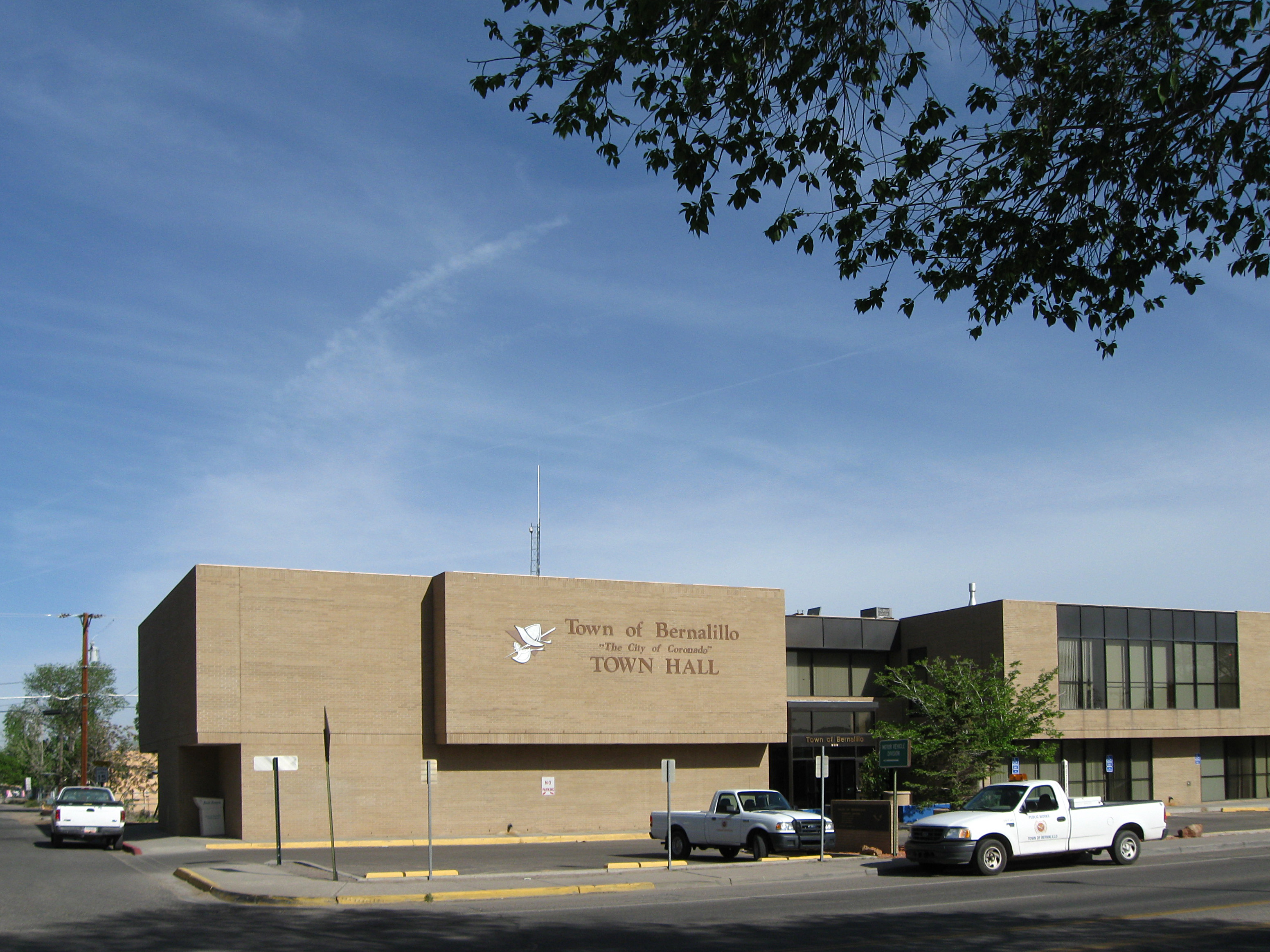 Bernalillo (New Mexico) Town Hall, located at 829 Camino del Pueblo. Architect: Guadalupe Castillo